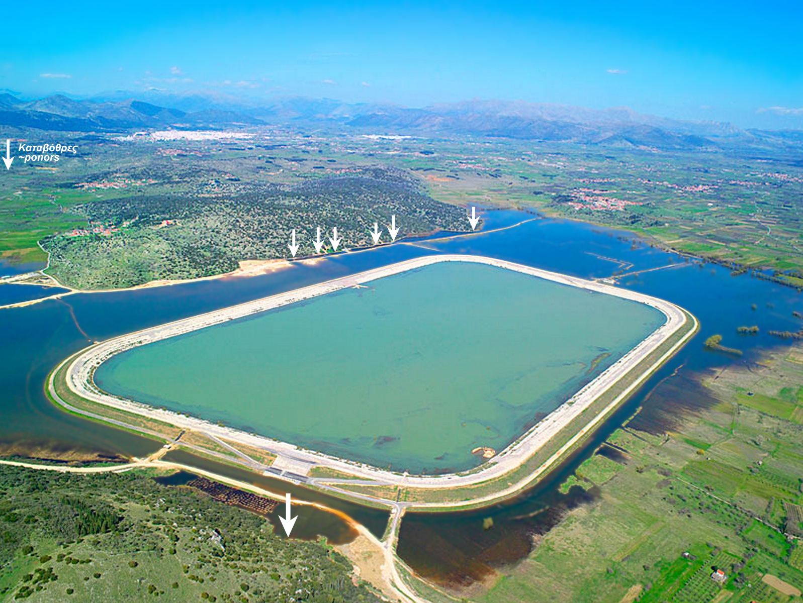 Temporary Lake Taka, in the Arcadian highland. The lake is in a long basin, called “Tripoli-Plateau”, because the capital of Arcadia borders in its middle. It is a geological “closed basin”, as mountains surround it on all sides, this implies that all rain water collects in a flat lake at the southern end of the slightly inclined basin. tectonics totally shattered the carbonate (limestone) rock layers of the mountainous range of Arcadia over time. Cracks and fissures enlarged and 7 (!) ponors developed over time, through which the lake is drained. The mediterranean climate of the Peloponnese (very hot and dry for months) accelerates the process of totally drying up. A pond, built with a fund of the EU in 2000, now ensures water for irrigation throughout the year, but the NATURA 2000 resort, once a biotope frequented by many species of flora and fauna is endangered.